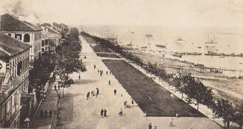 The British and other foreign concessions along the Hankow Bund, c. 1900.